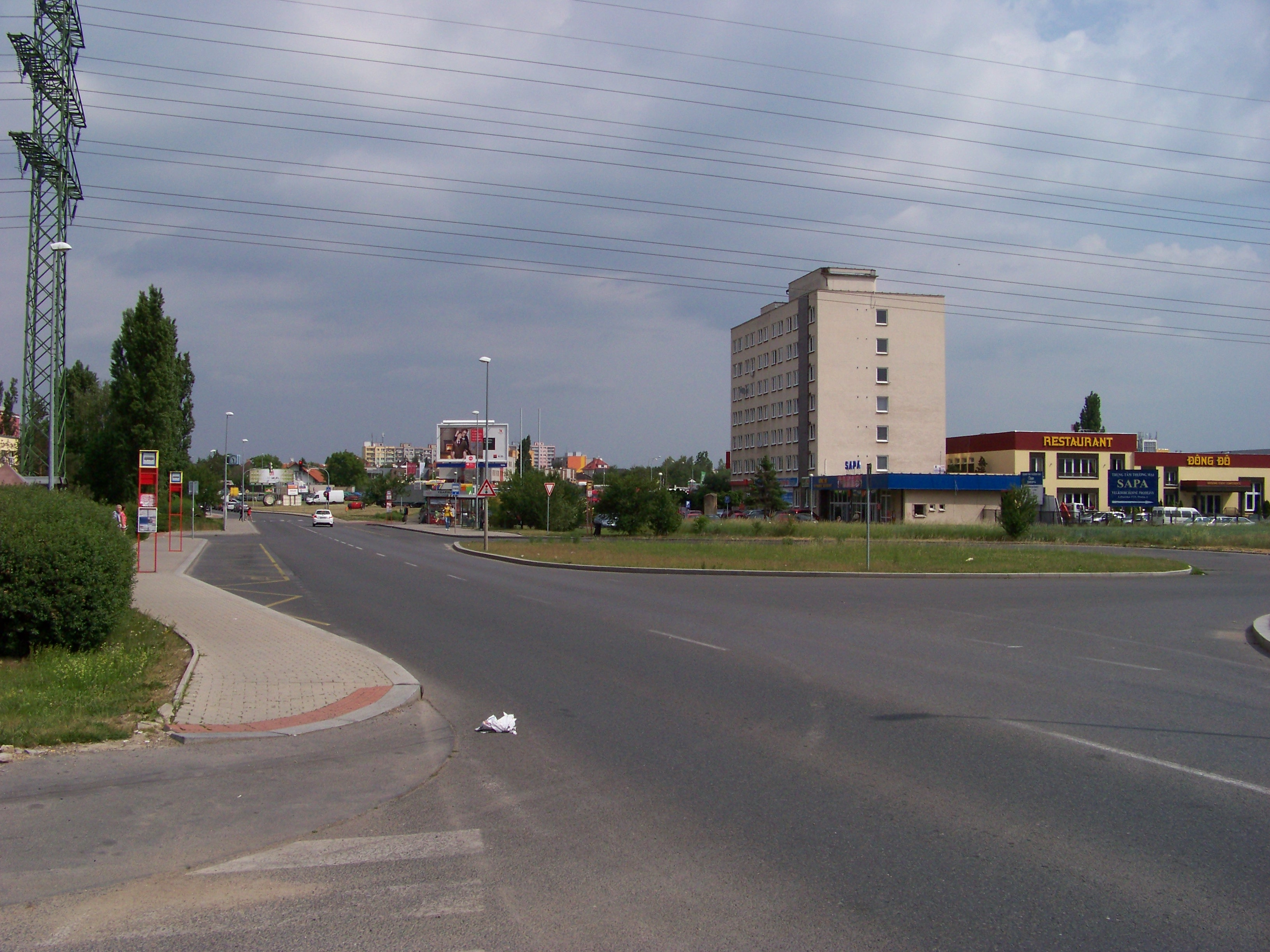 Prague-Písnice, the Czech Republic. Libušská street, bus loop Sídliště Písnice, TTTM Sapa building.